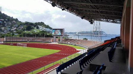 This photo was taken in November 2016